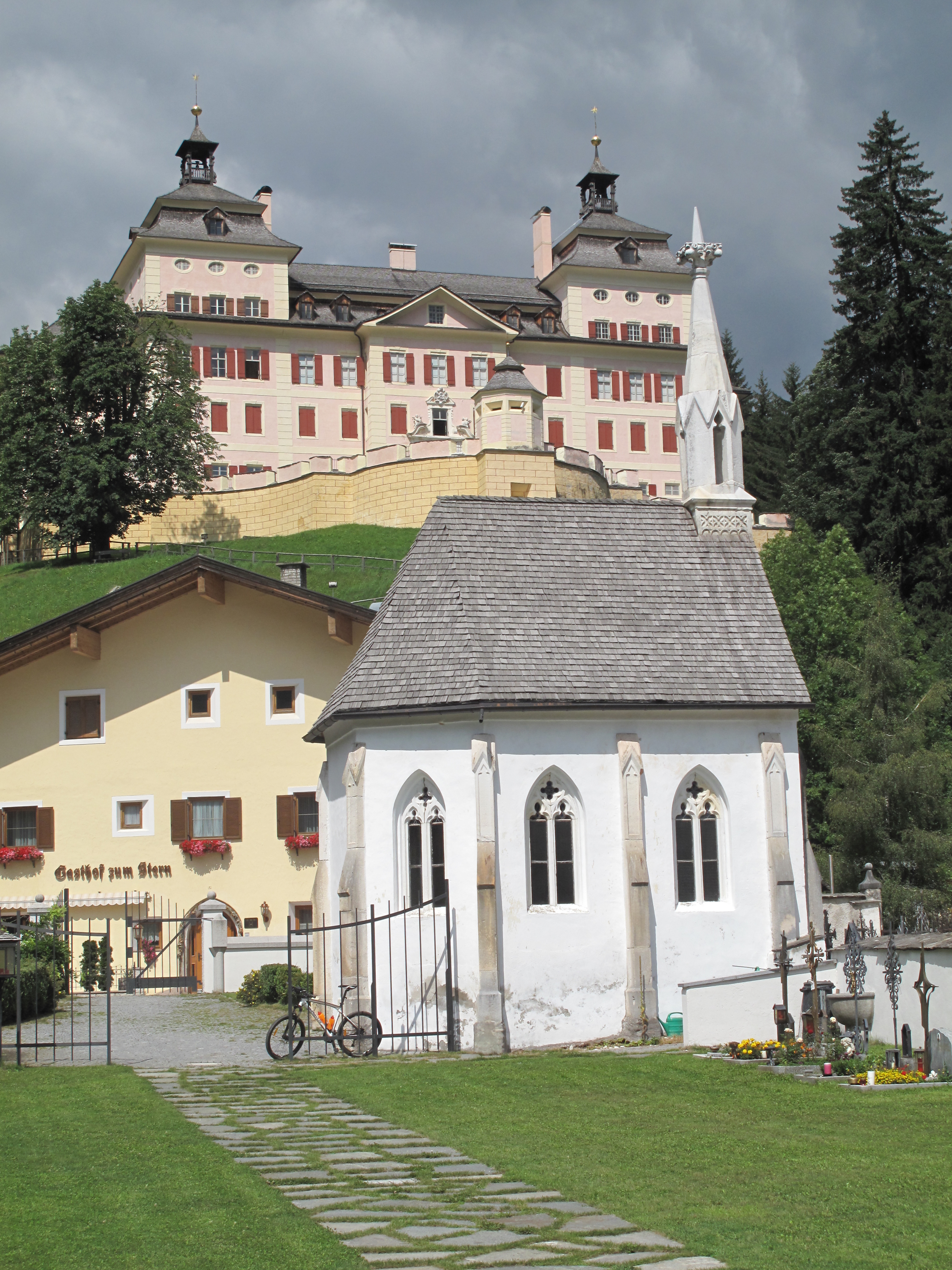 Mareit, burial chapel of the Freiherren von Sternbach in Mareit, Wolfsthurn Castle in the background